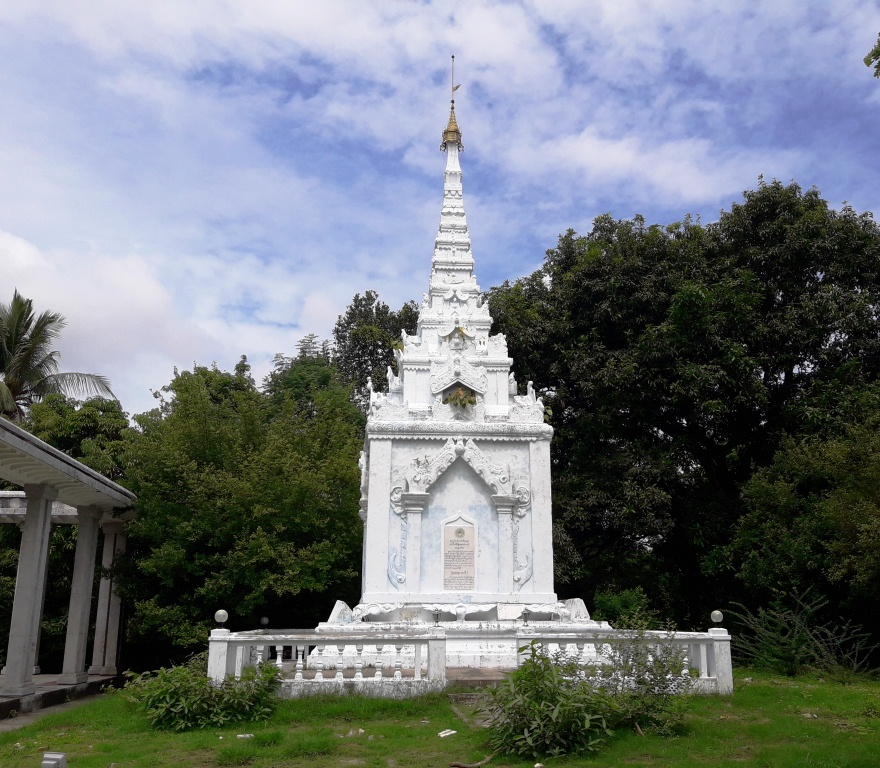 Tomb of Supayalat, Yangon, Myanmar.